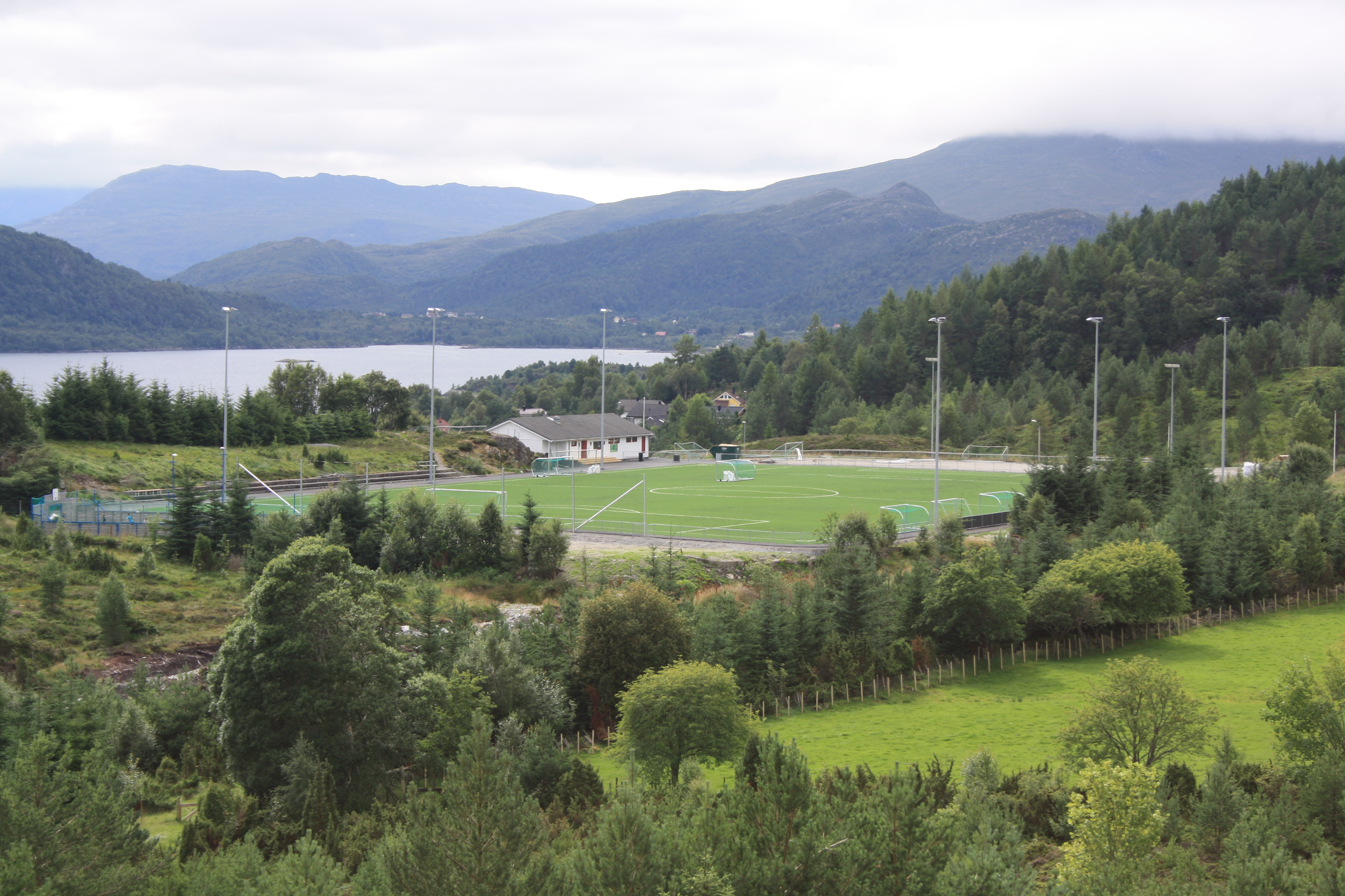 Hasundgot Stadium, the local soccerfield.